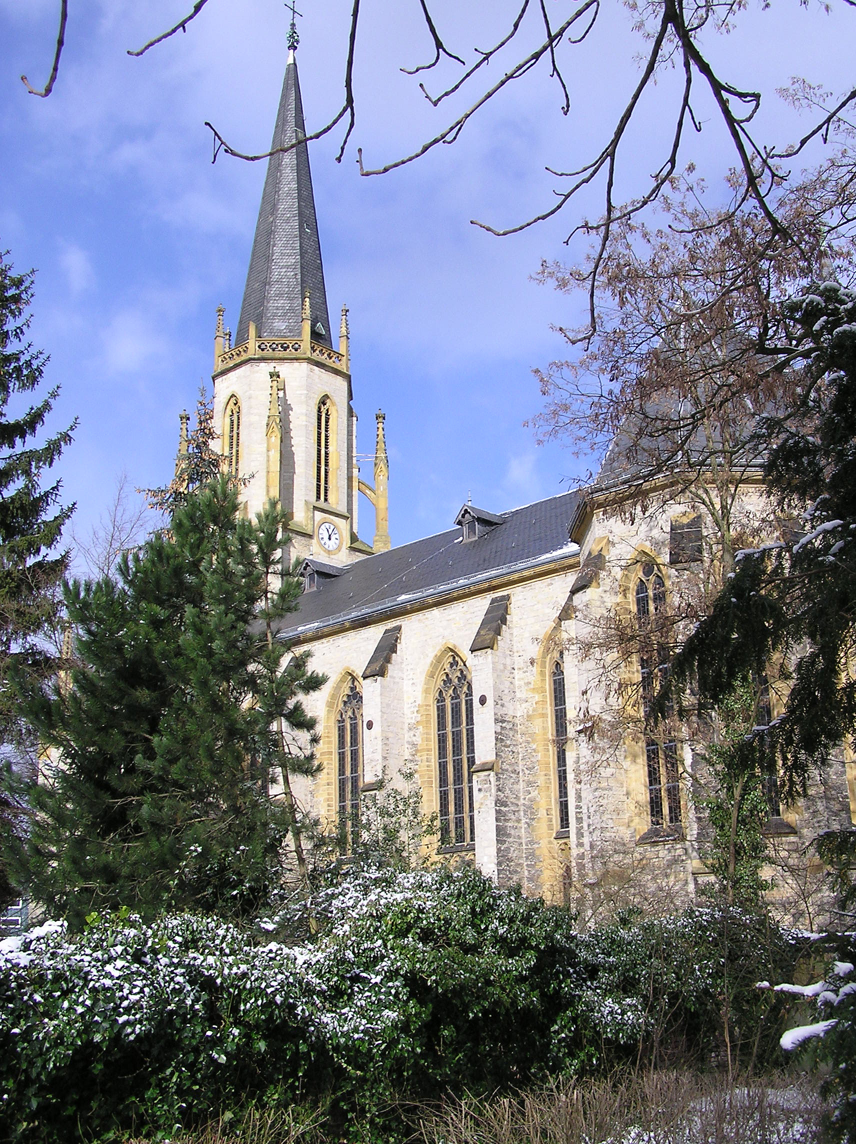 Martin-Luther-Kirche in Gütersloh This is a photograph of an architectural monument. 031